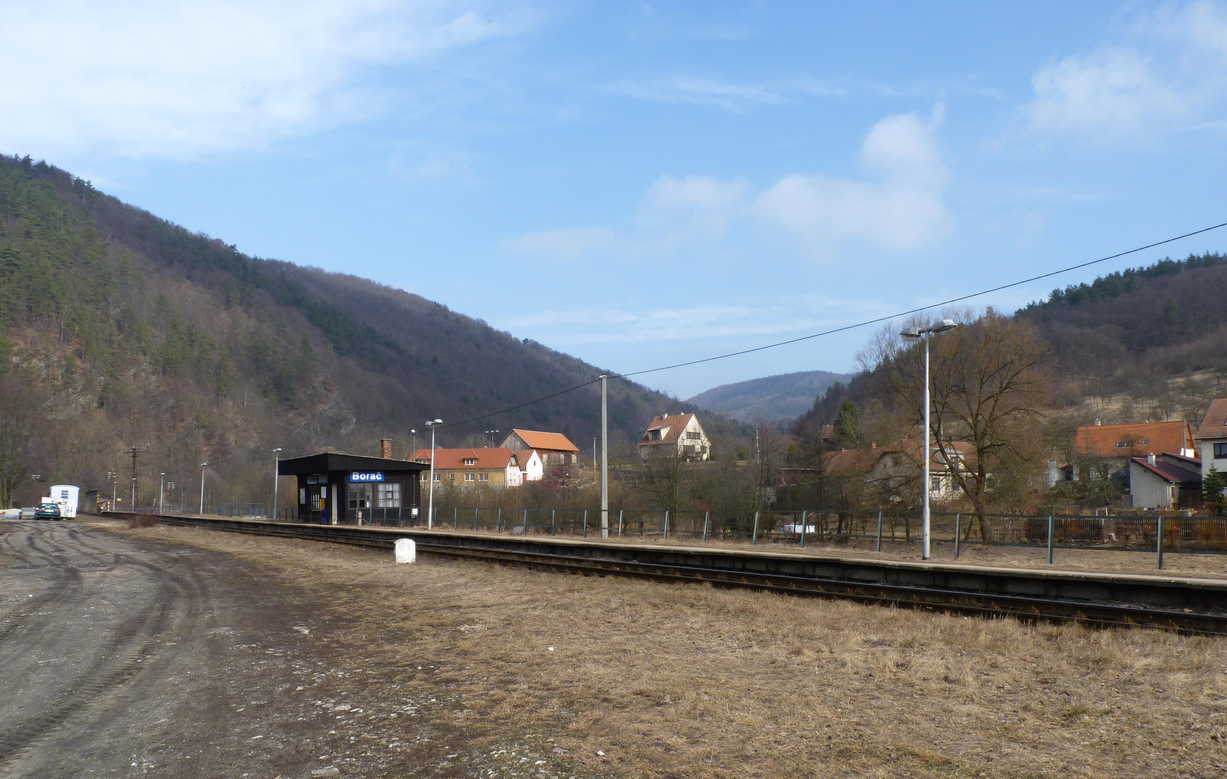 Borač. Brno-Country District, South Moravian Region, Czech Republic